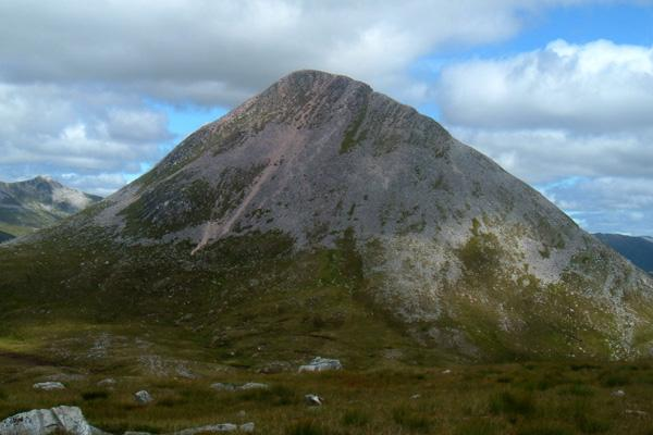 Binnein Beag taken from Binnein Mor. A great day to take some great photographs